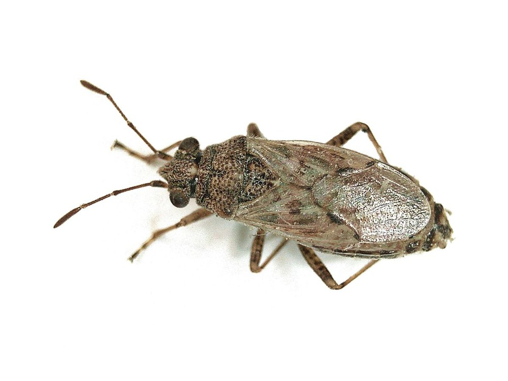 Nysius ericae (Lygaeidae) - (imago), Molenhoek - NS-terrein, the Netherlands